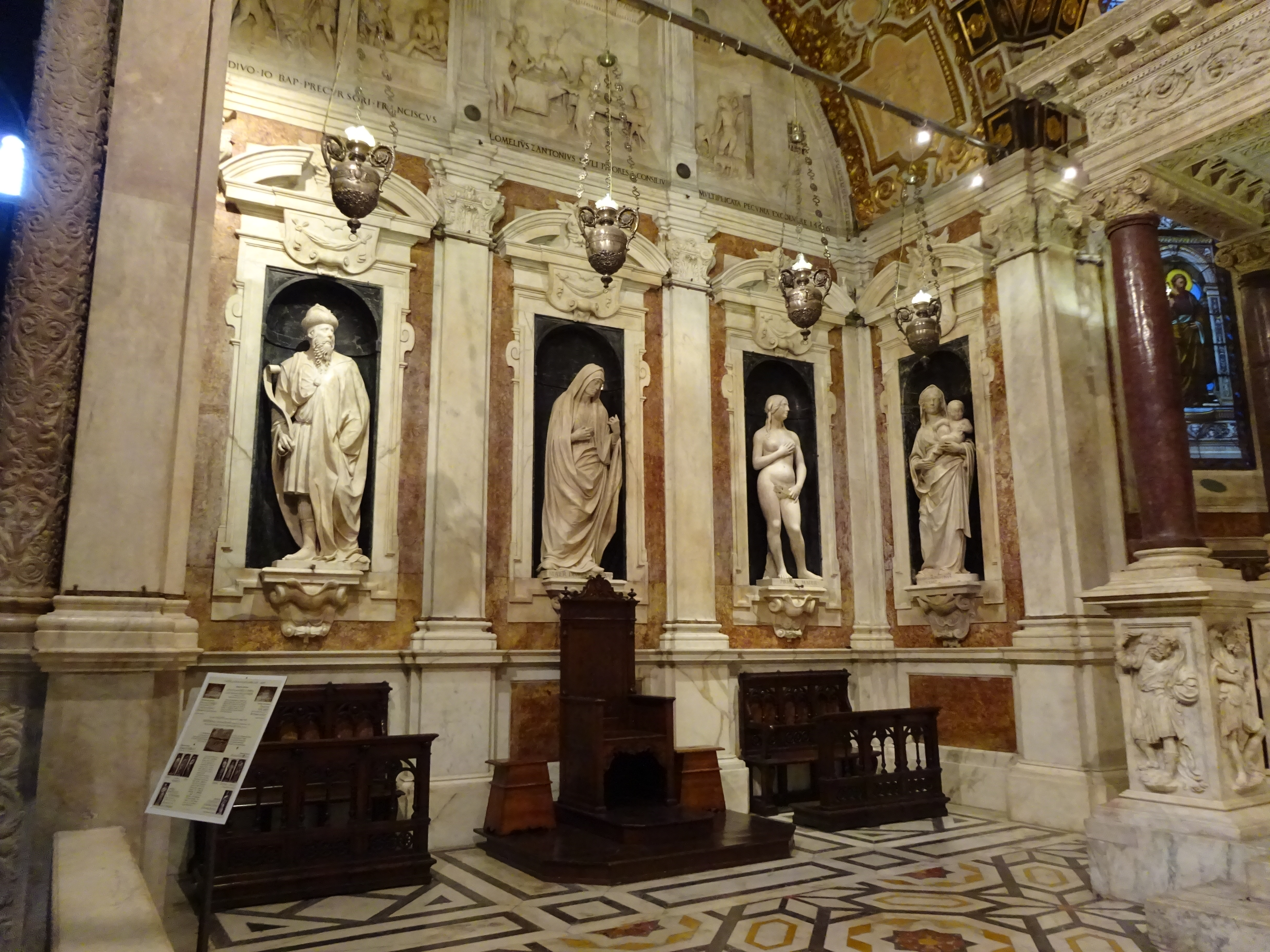 Statues of the left side of St. John's Chapel in Genoa Cathedral